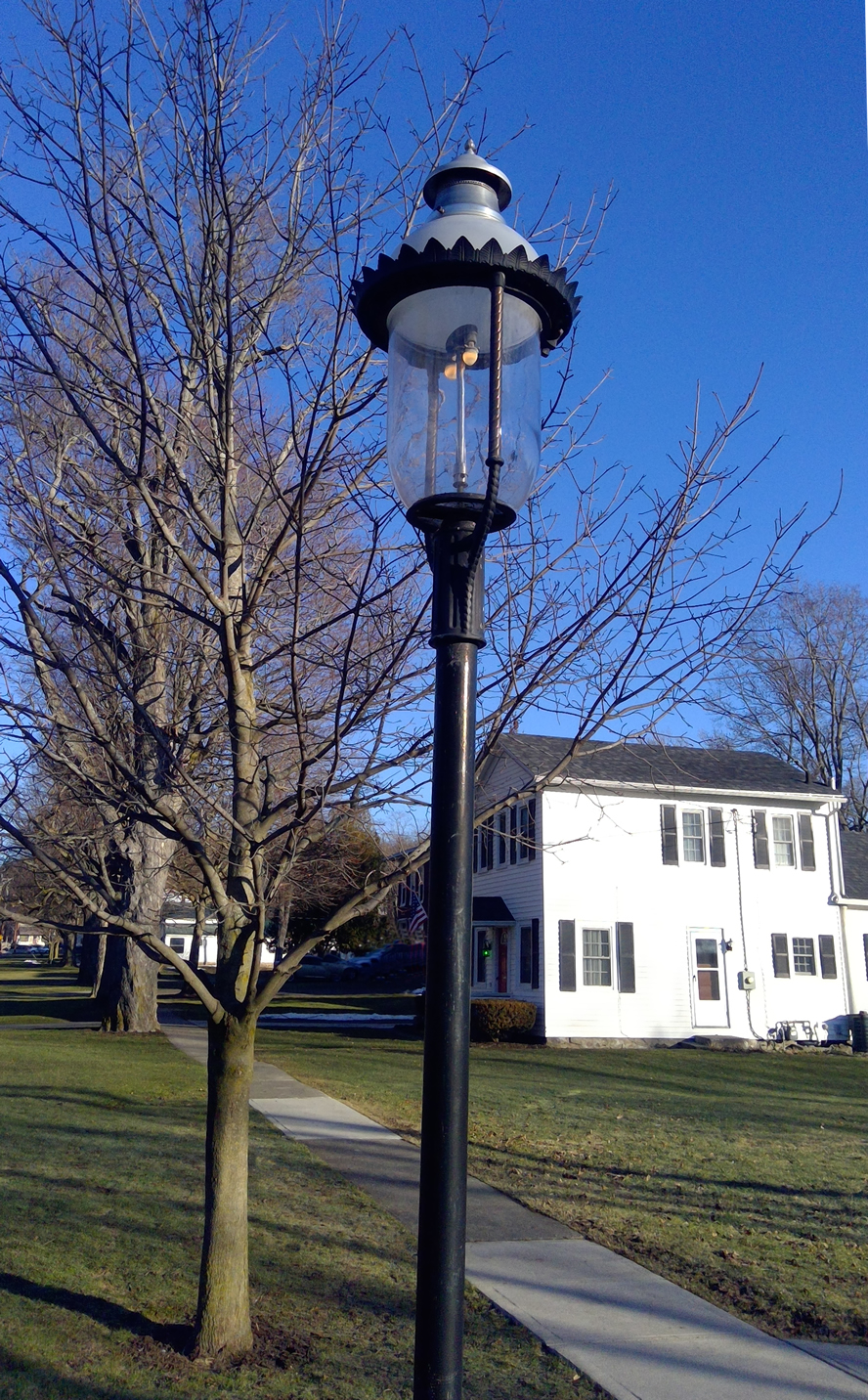 Image of an historic street gaslight in the Village of Wyoming, Wyoming County, New York in 2018.